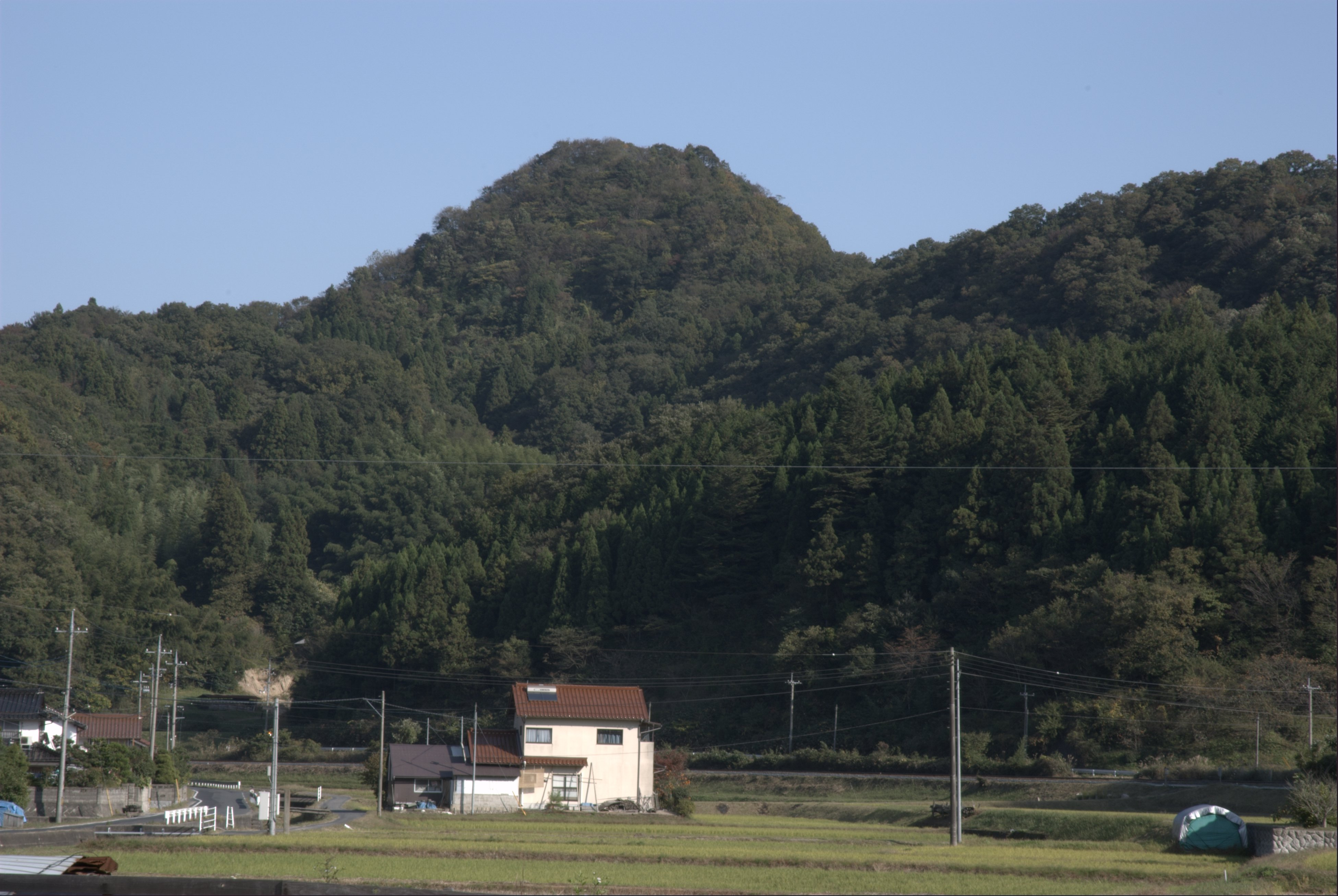 Daisai Castle in Unnan, Shimane prefecture